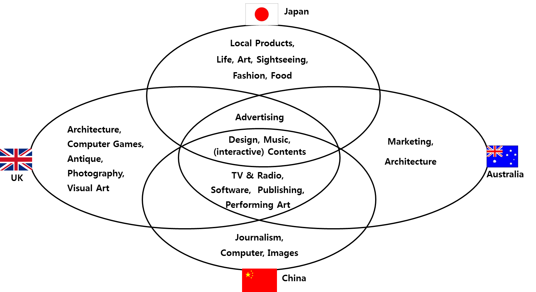 Scope of Creative Industry in Various Countries